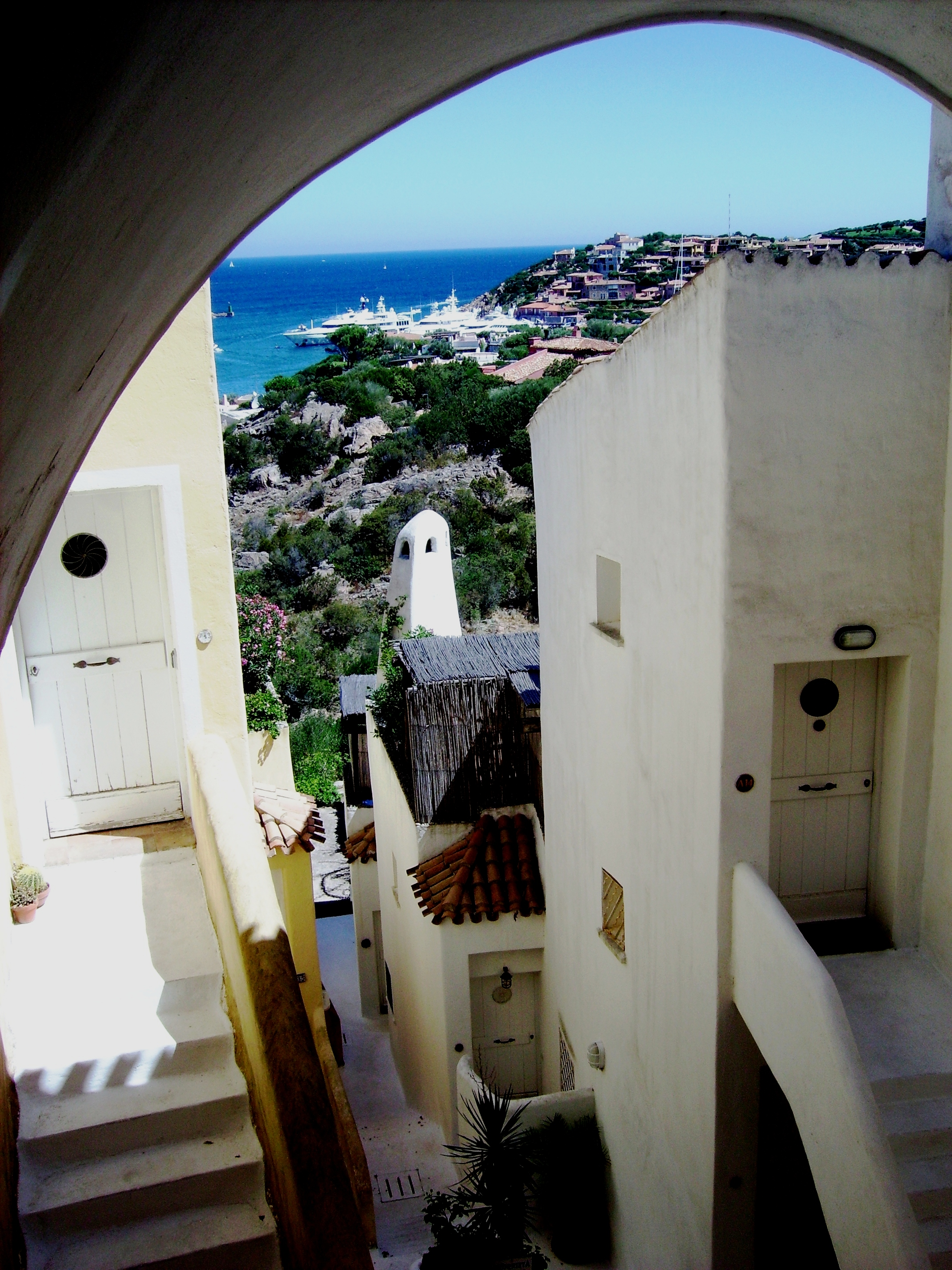 Sardegna - Porto Cervo By --Shardan 16:59, 14 September 2007 (UTC)